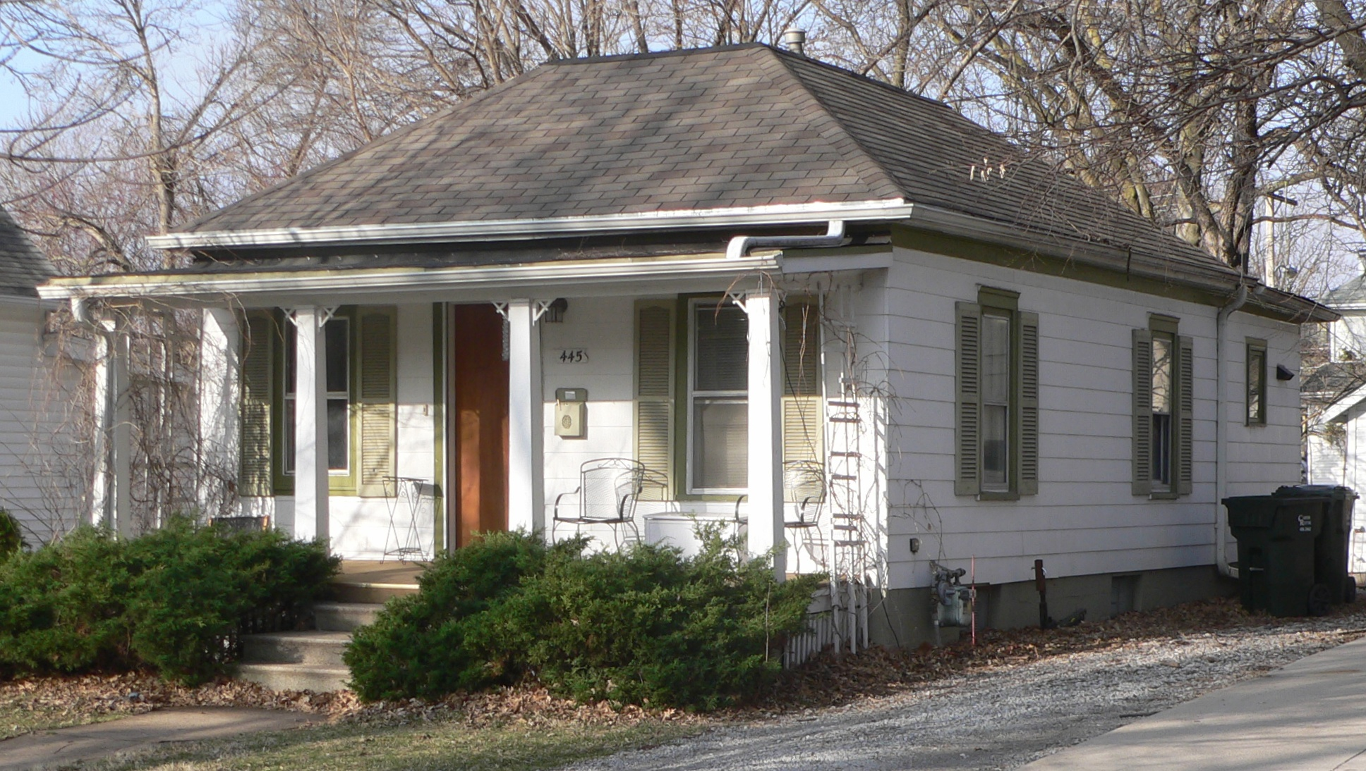 Nimrod Ross house, located at 445 S. 30th Street in Lincoln, Nebraska; seen from the northeast.